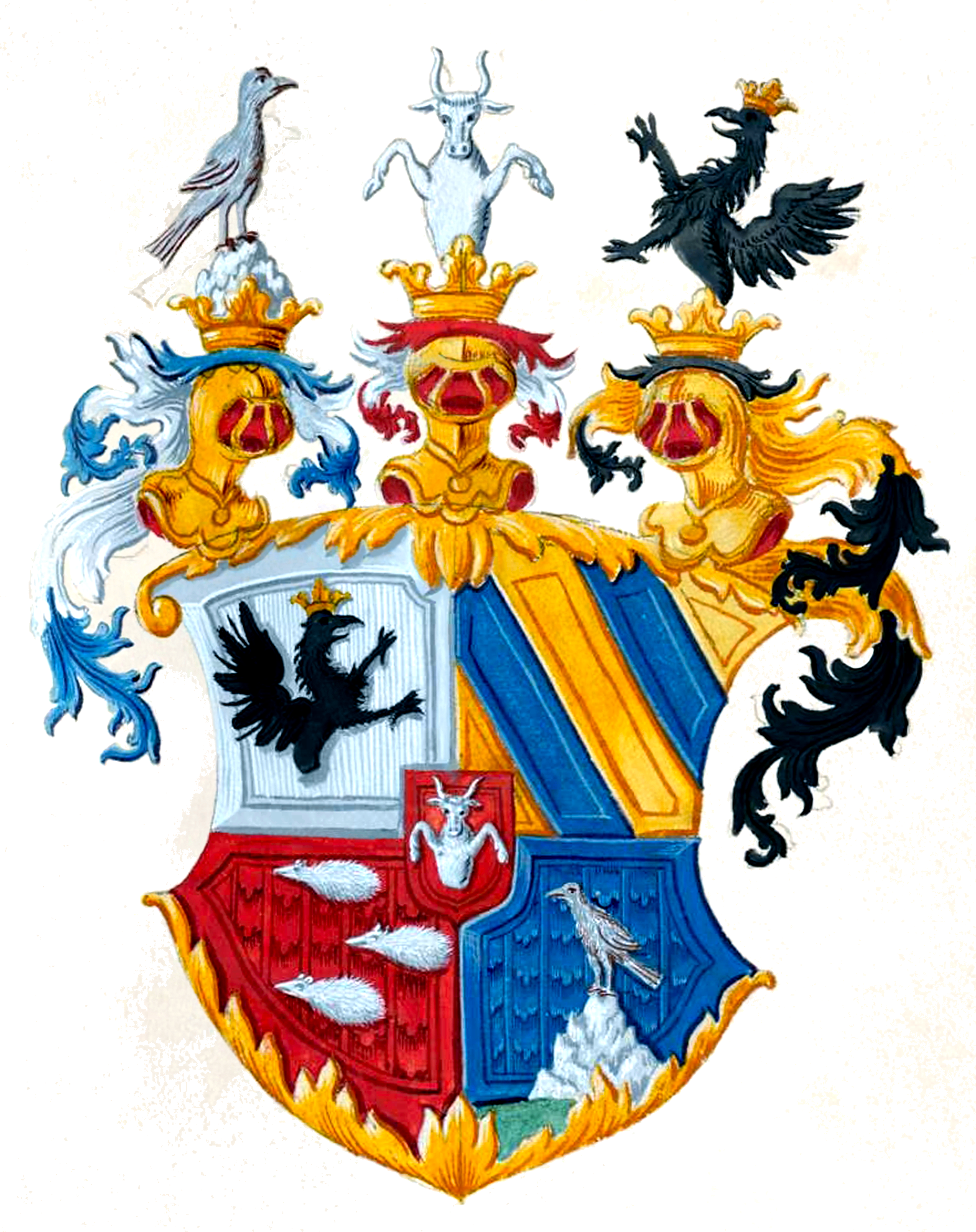 Coat of arms of Alexander Freiherr von Sprinzenstein Ausschnitt aus: Geheimes Ehrenbuch der Fugger Nachtrag (16.–19. Jh.), S. 193